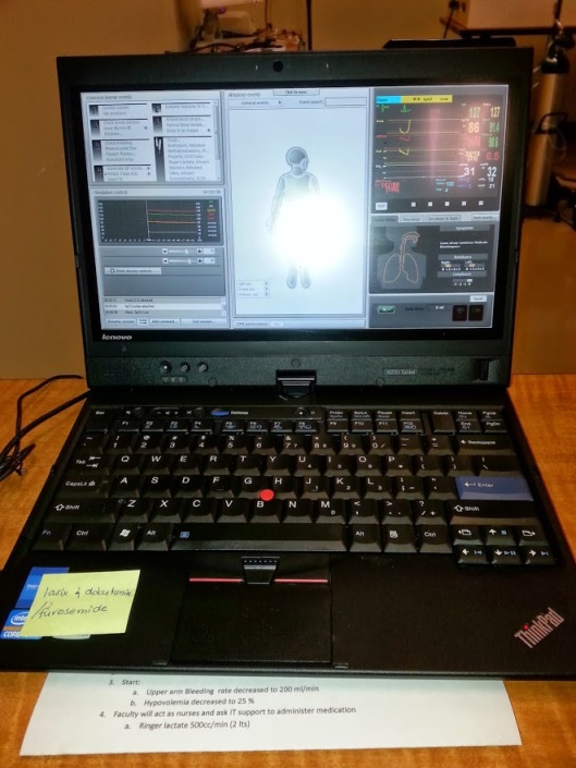 Screen Shot for Simulation Session